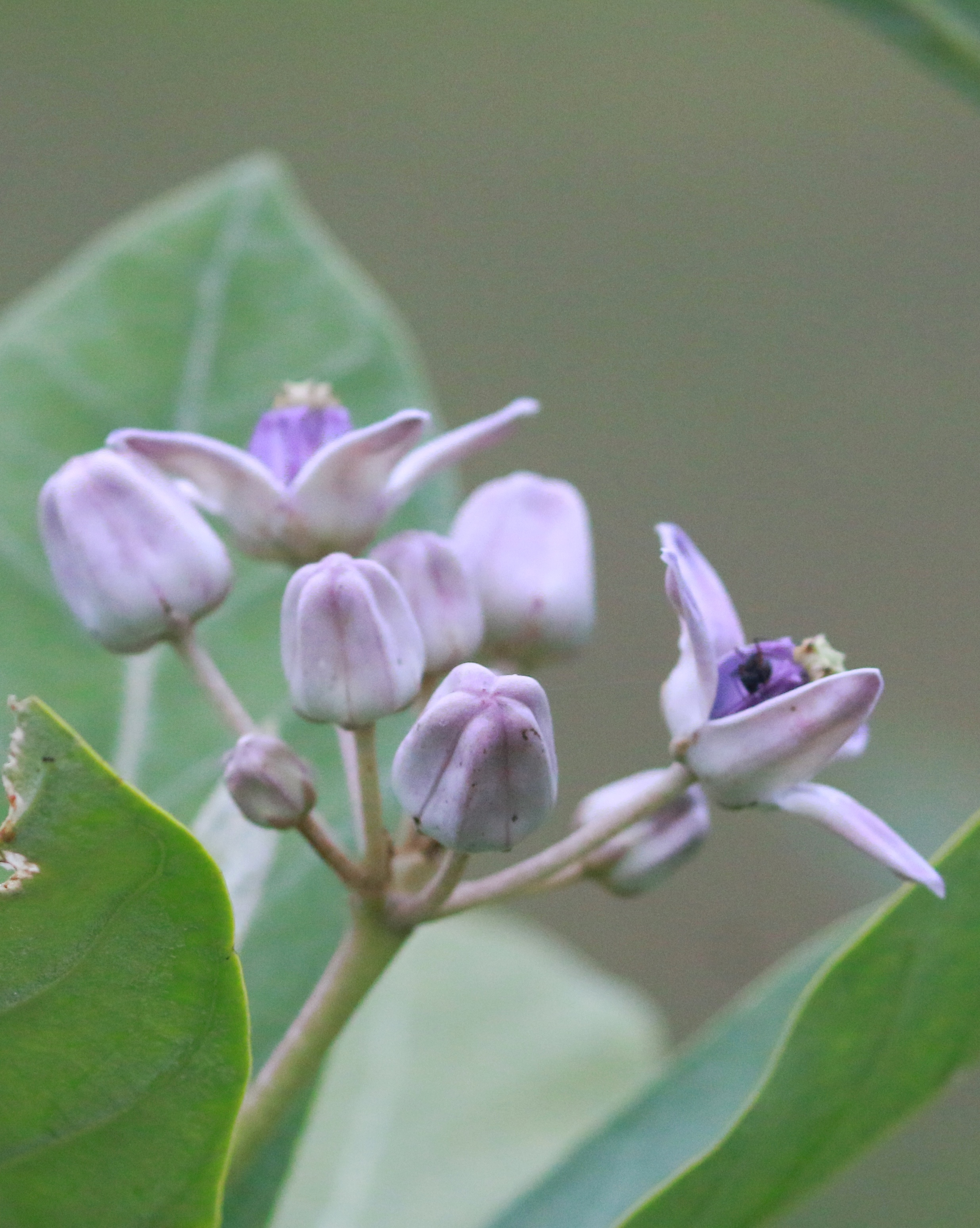 Calotropis gigantea flower